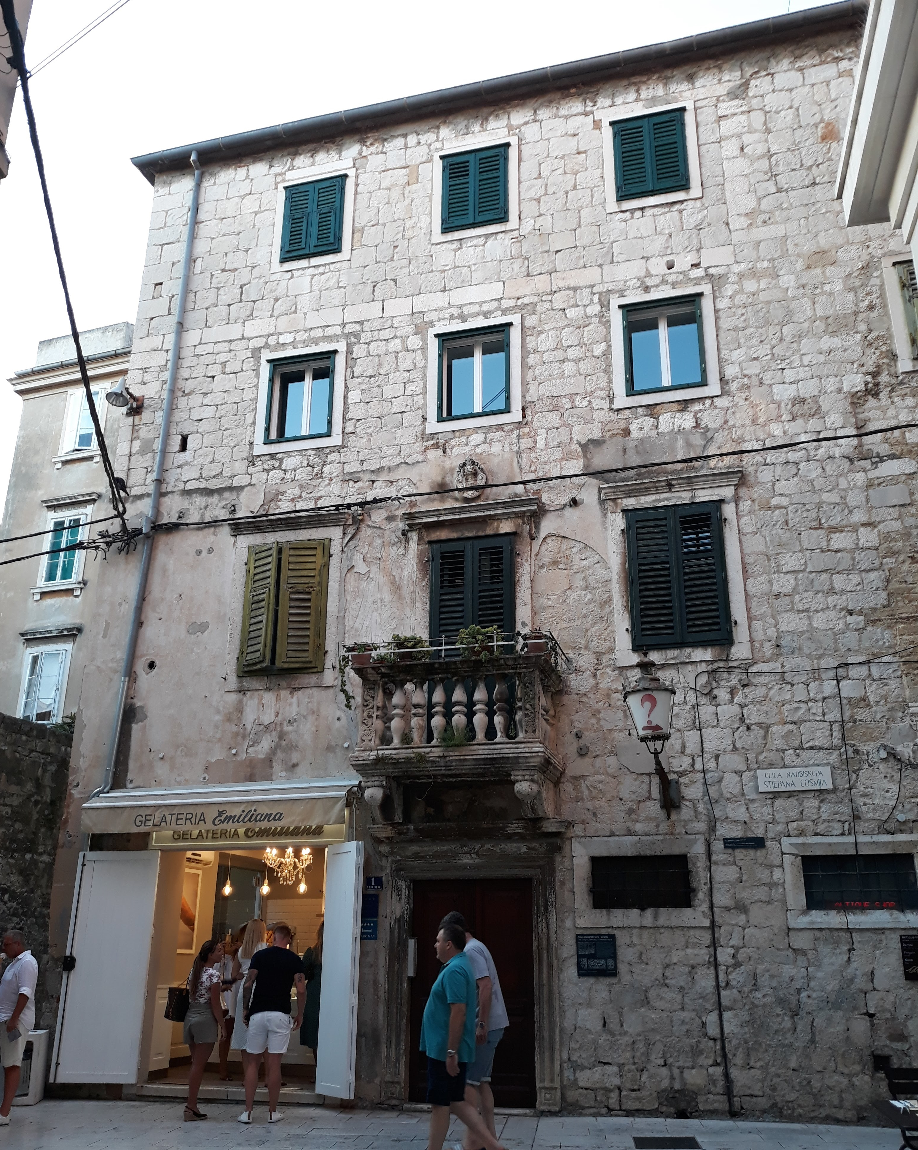 Dragišić Palace, Split